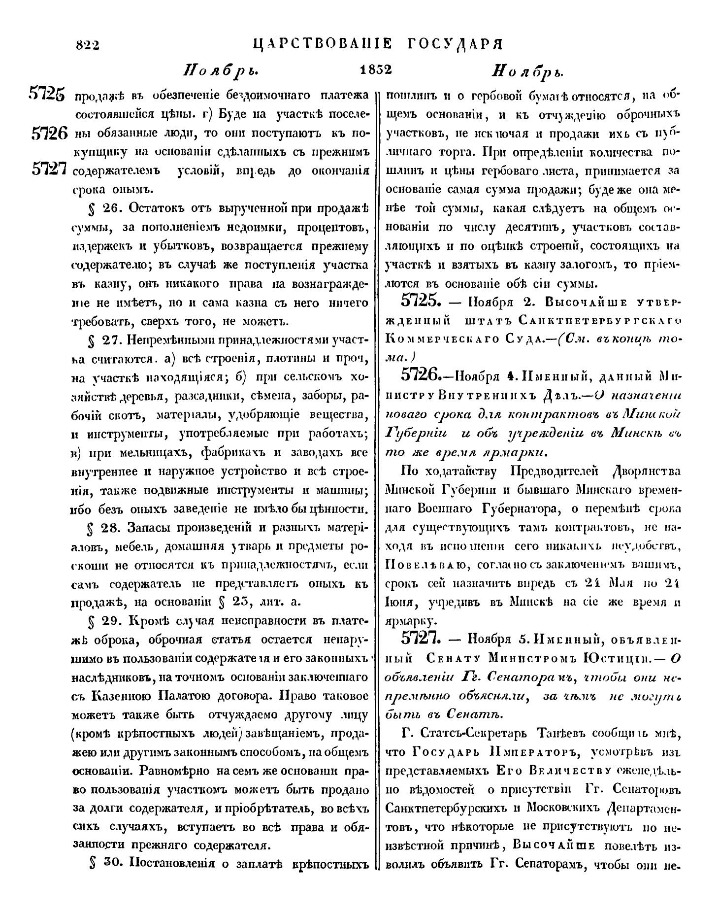 Complete Collection of Laws of the Russian Empire. Collect. 2. Т.7 nr 5726 - page 822, 1832 AD